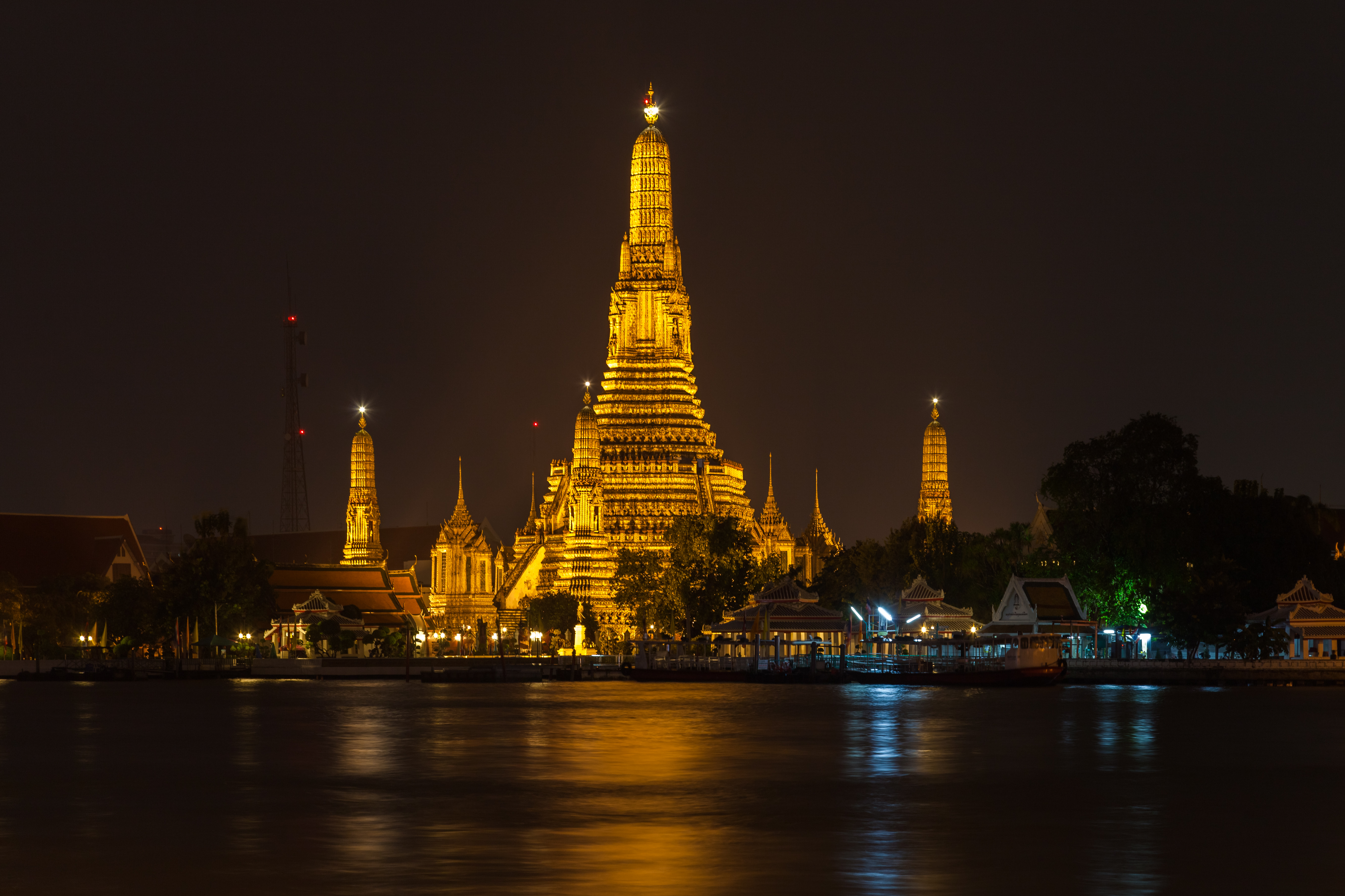 Wat Arun Temple, Bangkok, Thailand